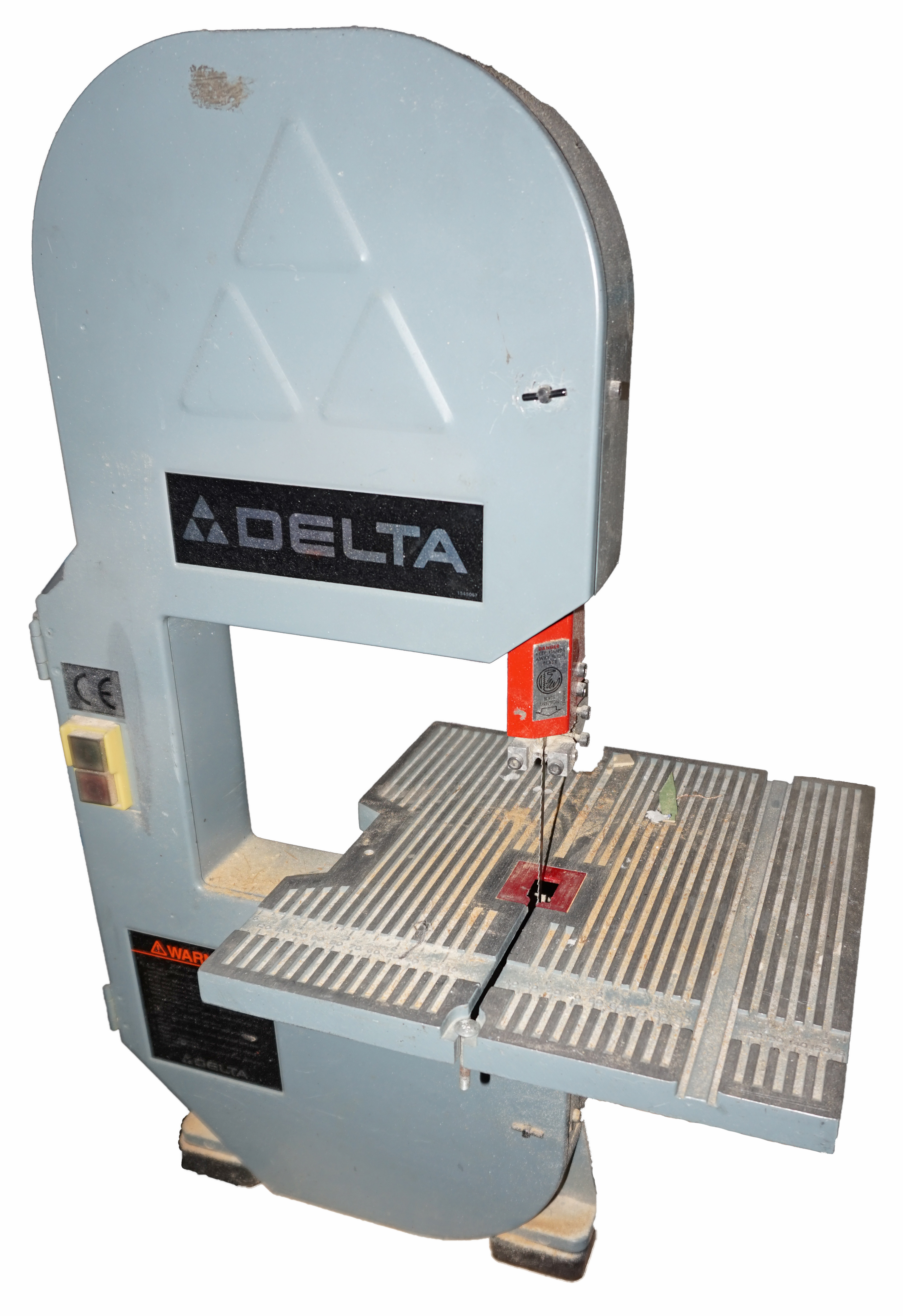 Delta Bandsaws.